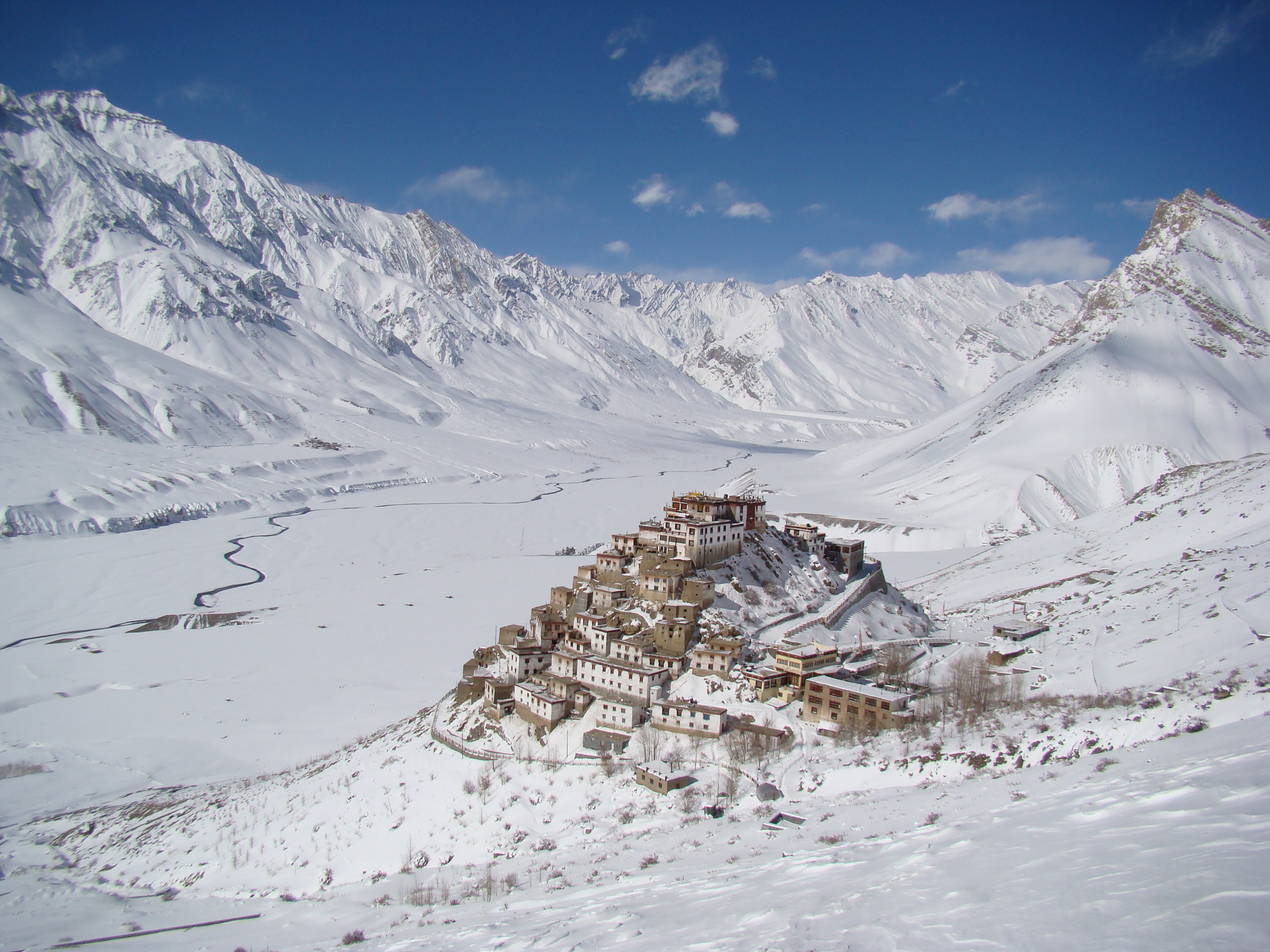 Kee Monastery in Winter